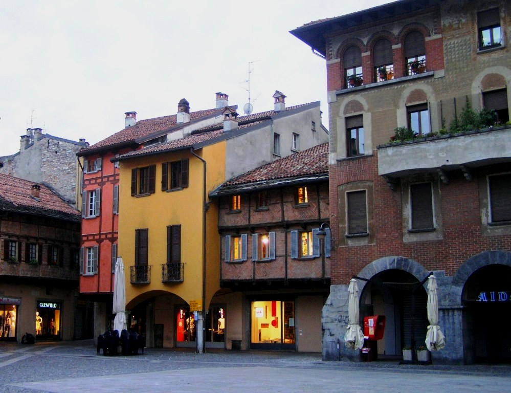 Como (Italy), piazza San Fedele.